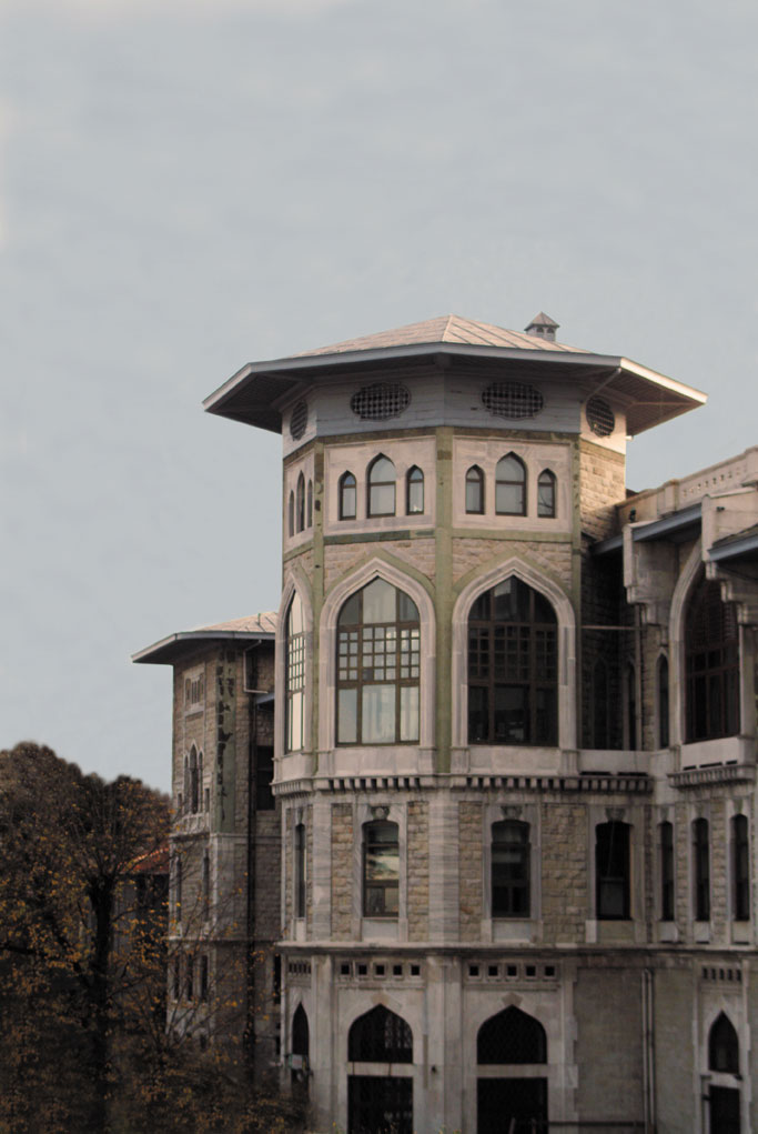 by Tansel Atasagun (IEL 87)